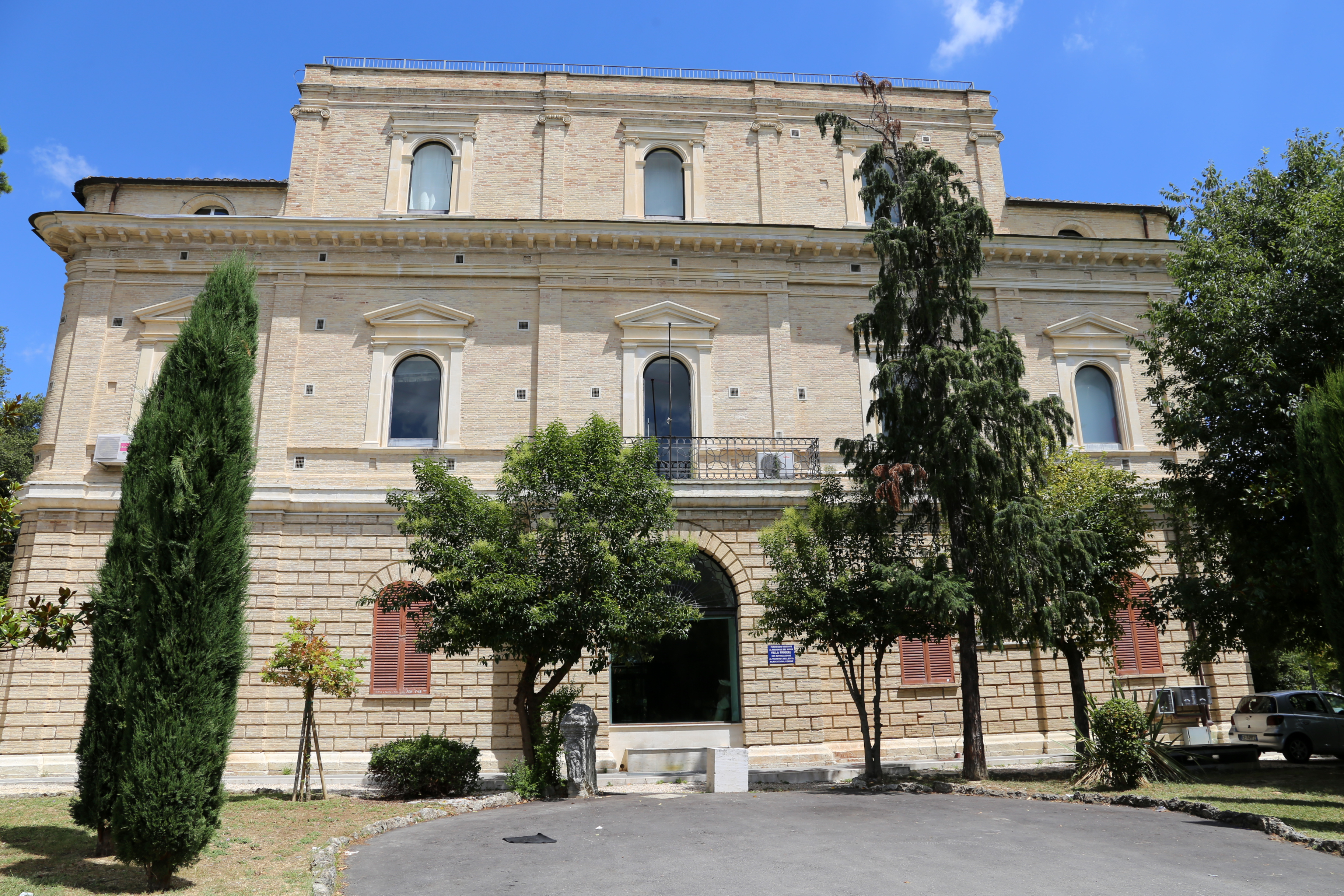 Museo archeologico nazionale d'Abruzzo